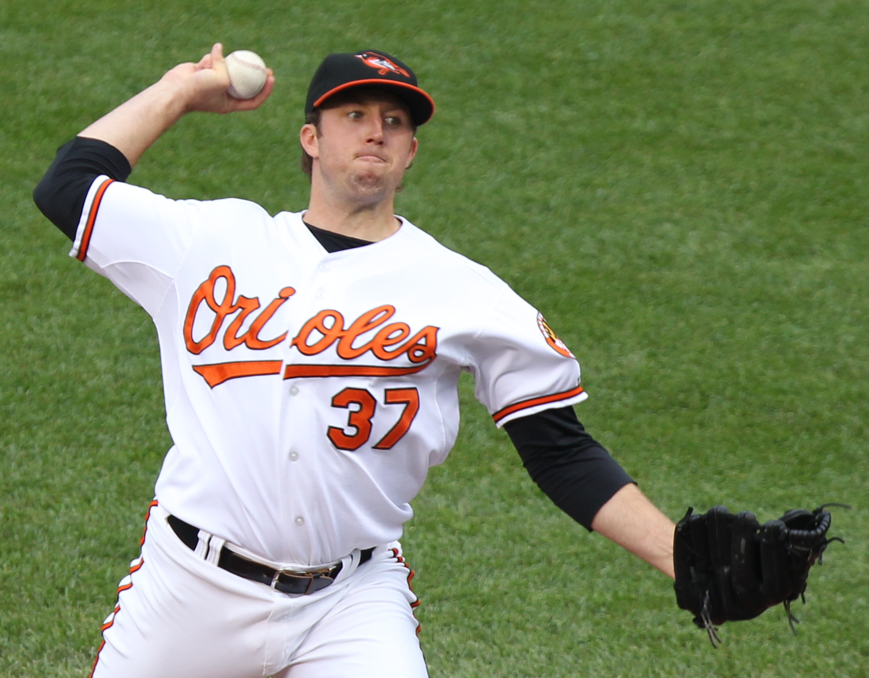 Jeremy Accardo